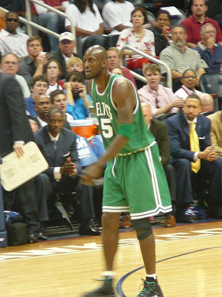 User:Chrisjnelson agreed to license this image of Kevin_Garnett.jpg under a free attribution license. Any use of this image must be attributed; this means that Photo by Chris Nelson